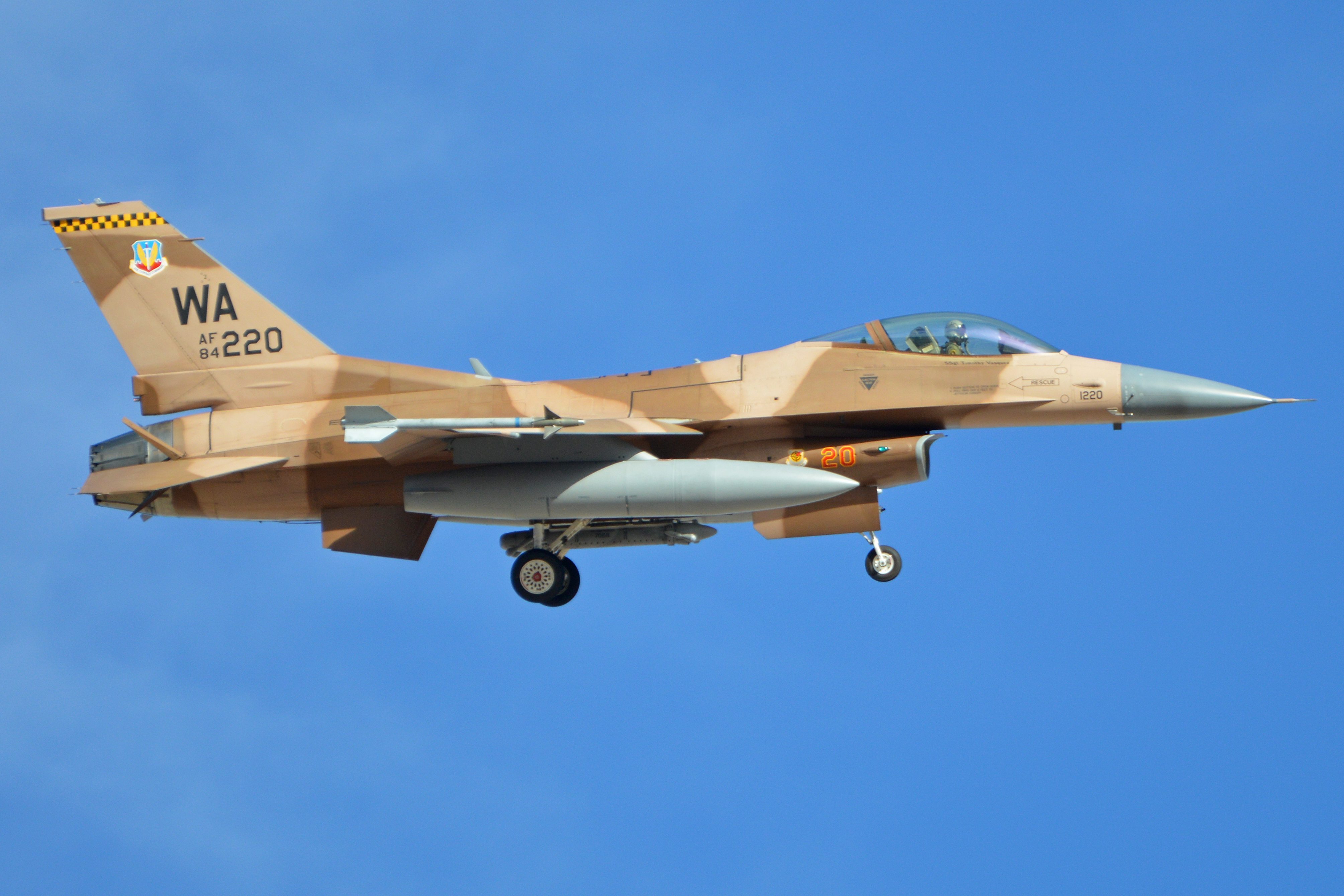 c/n 5C-57. Full US military serial 84-1220. Operated by 64th Aggressor Sqn, part of the 57th Adversary Tactics Group. Returning from a mission as part of Red Flag 16-2. Nellis AFB, NV, USA. 1st March 2016